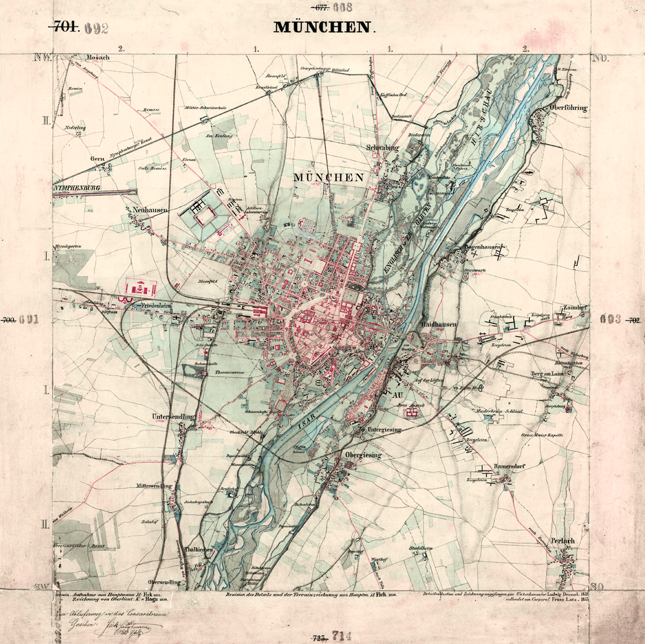 Map of Munich, 1853